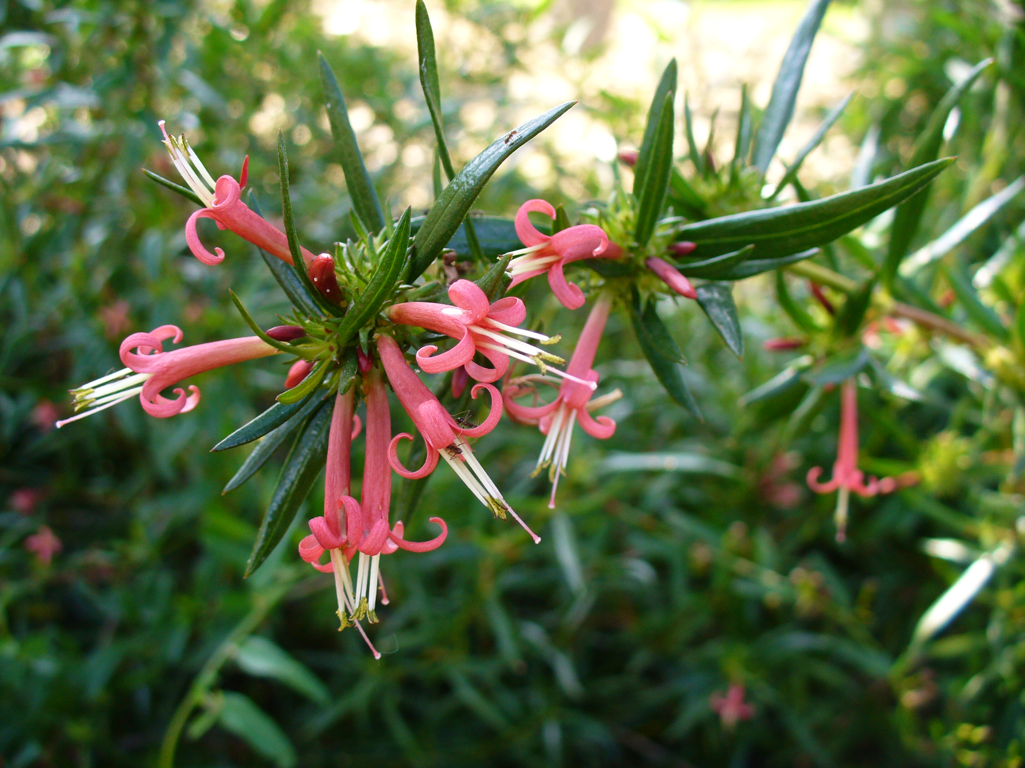 Fairchild Tropical Botanic Garden, Miami, Florida, USA. Photo by T.H. Chow